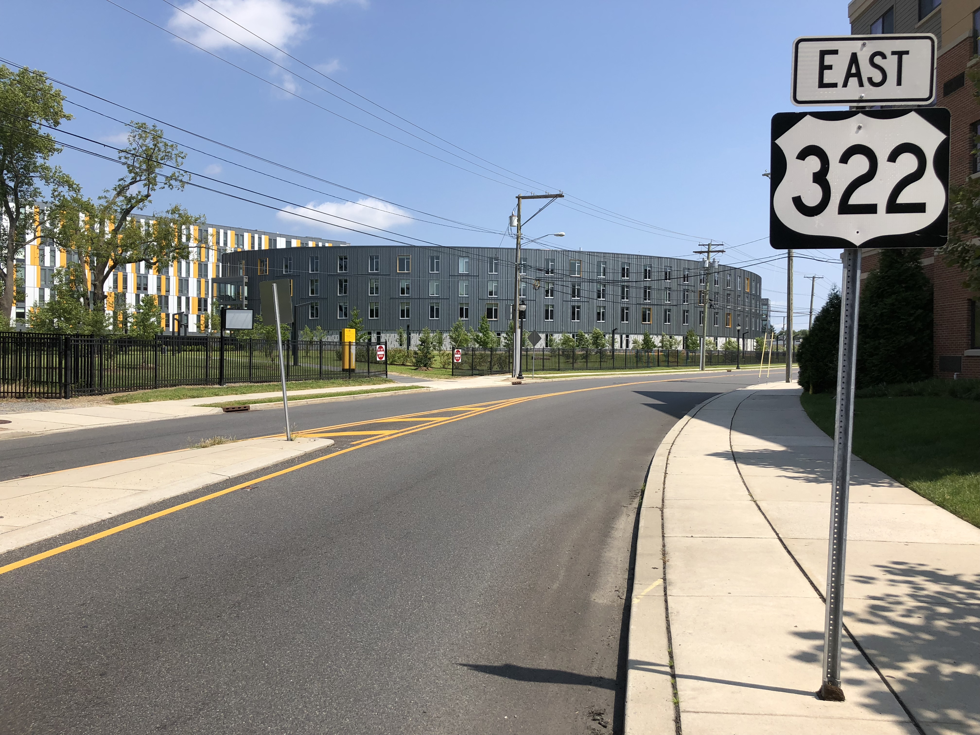 View east along U.S. Route 322 and Gloucester County Route 536 (West Street) at Rowan Boulevard in Glassboro, Gloucester County, New Jersey